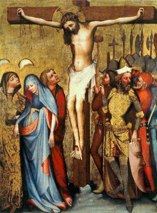 Altar of Trebon, Czech republic, around 1380,[1] Author: Master of Altar of Trebon.